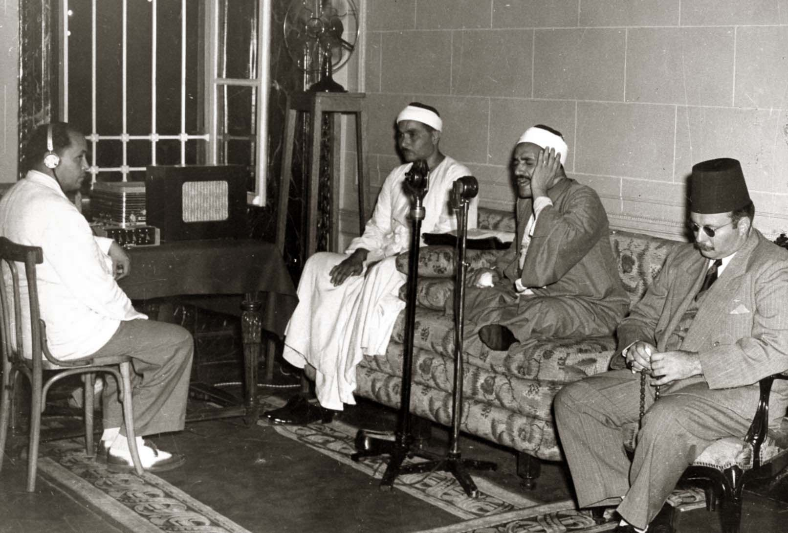 King Farouk I of Egypt listening to the Dhikr al-Hakim Quranic verses, which were broadcast during Ramadan from Abdeen Palace in the presence of Sheikh Taha al-Fashni (seen here reciting in the microphone) and Sheikh Mustafa Ismail.